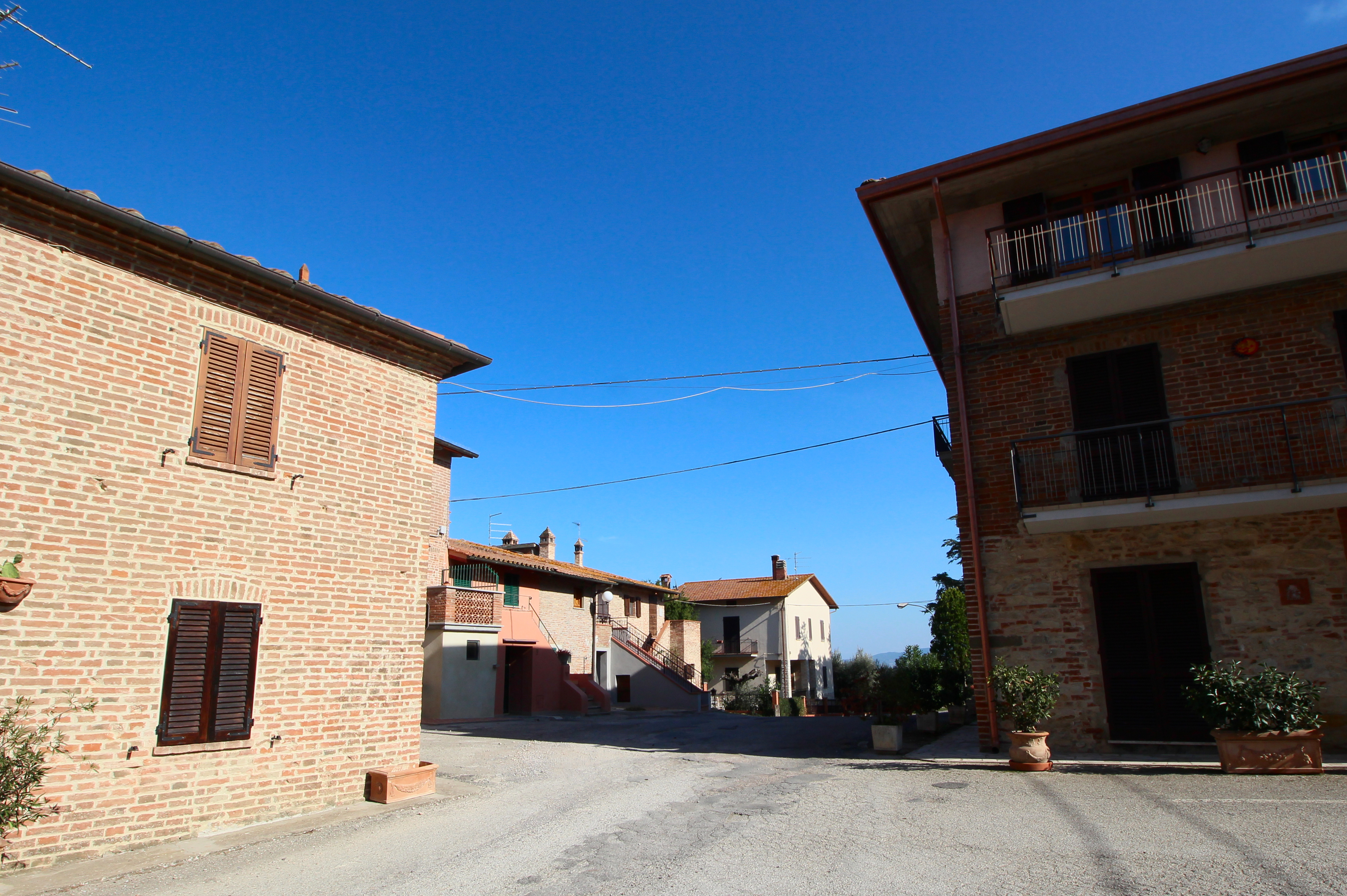 Frattavecchia, hamlet of Castiglione del Lago, Province of Perugia, Umbria, Italy